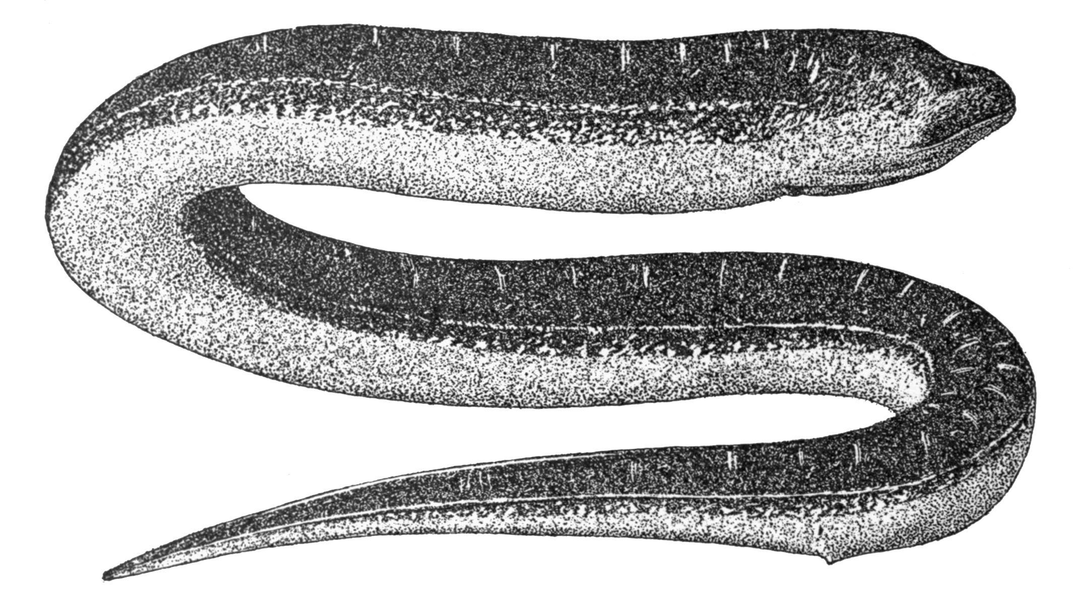 Monopterus albus